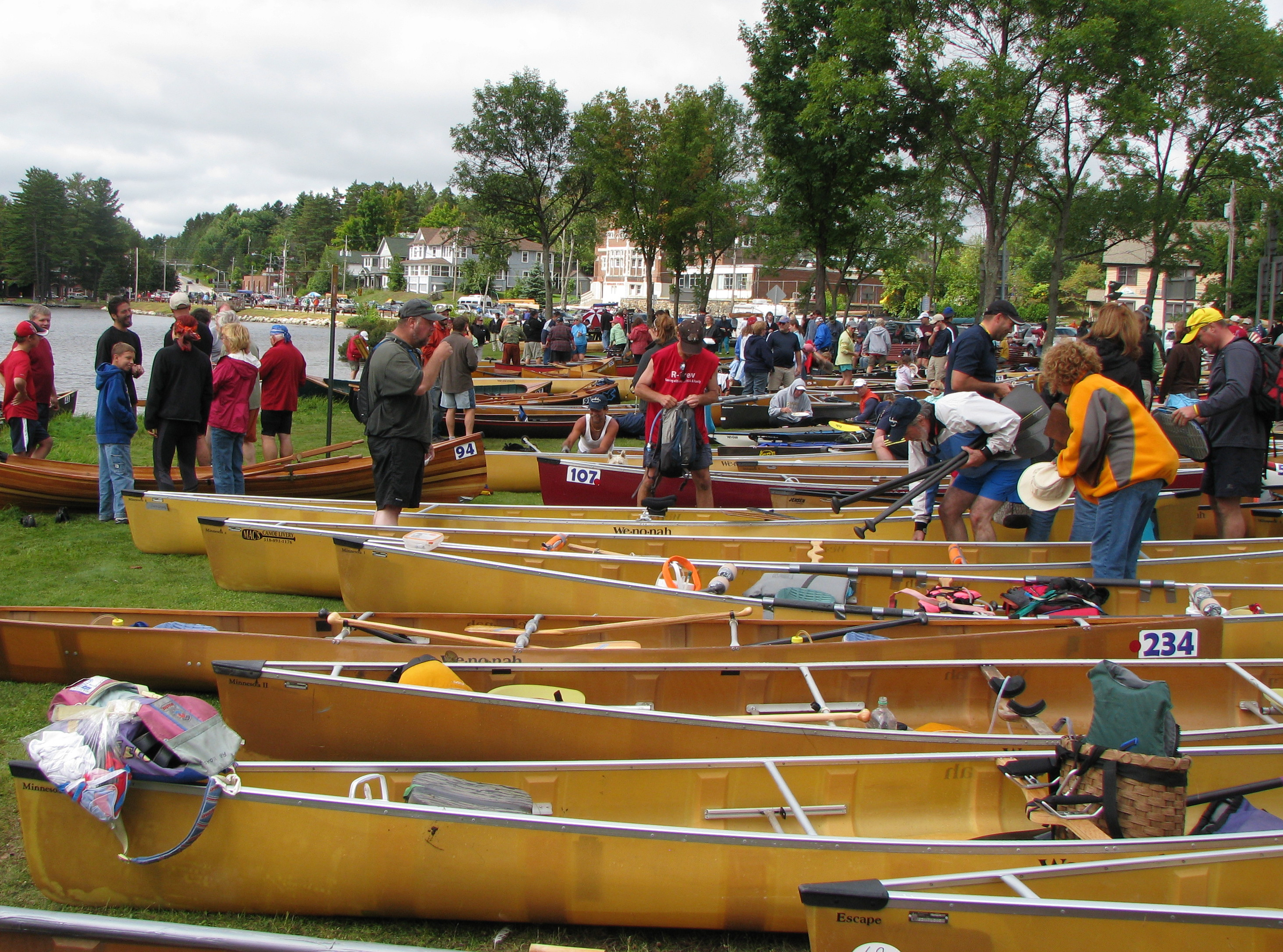 Kevlar racing canoes, Adirondack Canoe Classic, Saranac Lake, NY